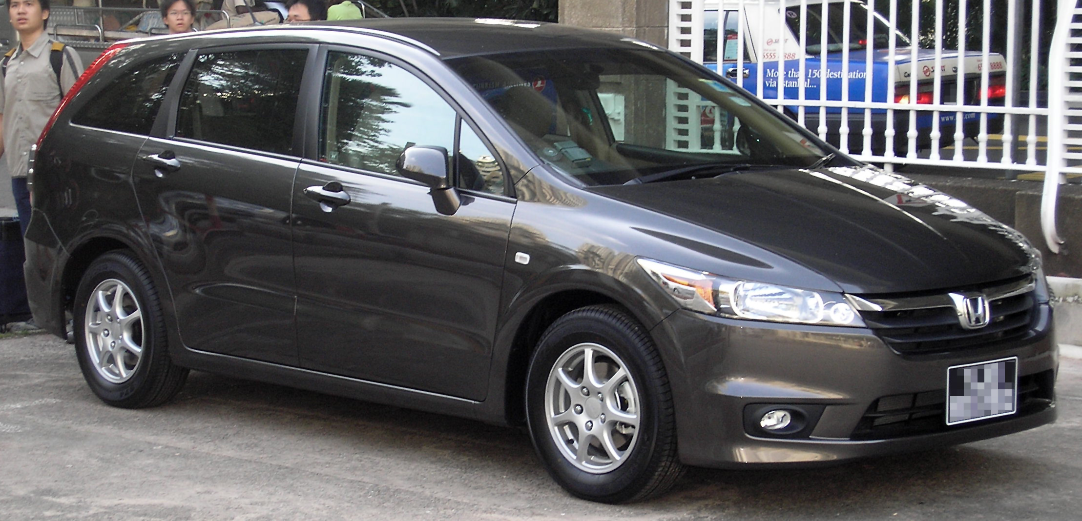 Front quarter view of a second generation Honda Stream in Singapore. Bears Singaporean license plates.